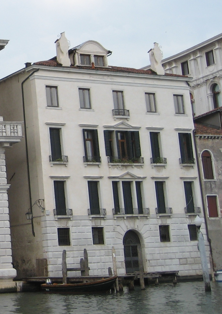 pal correggio